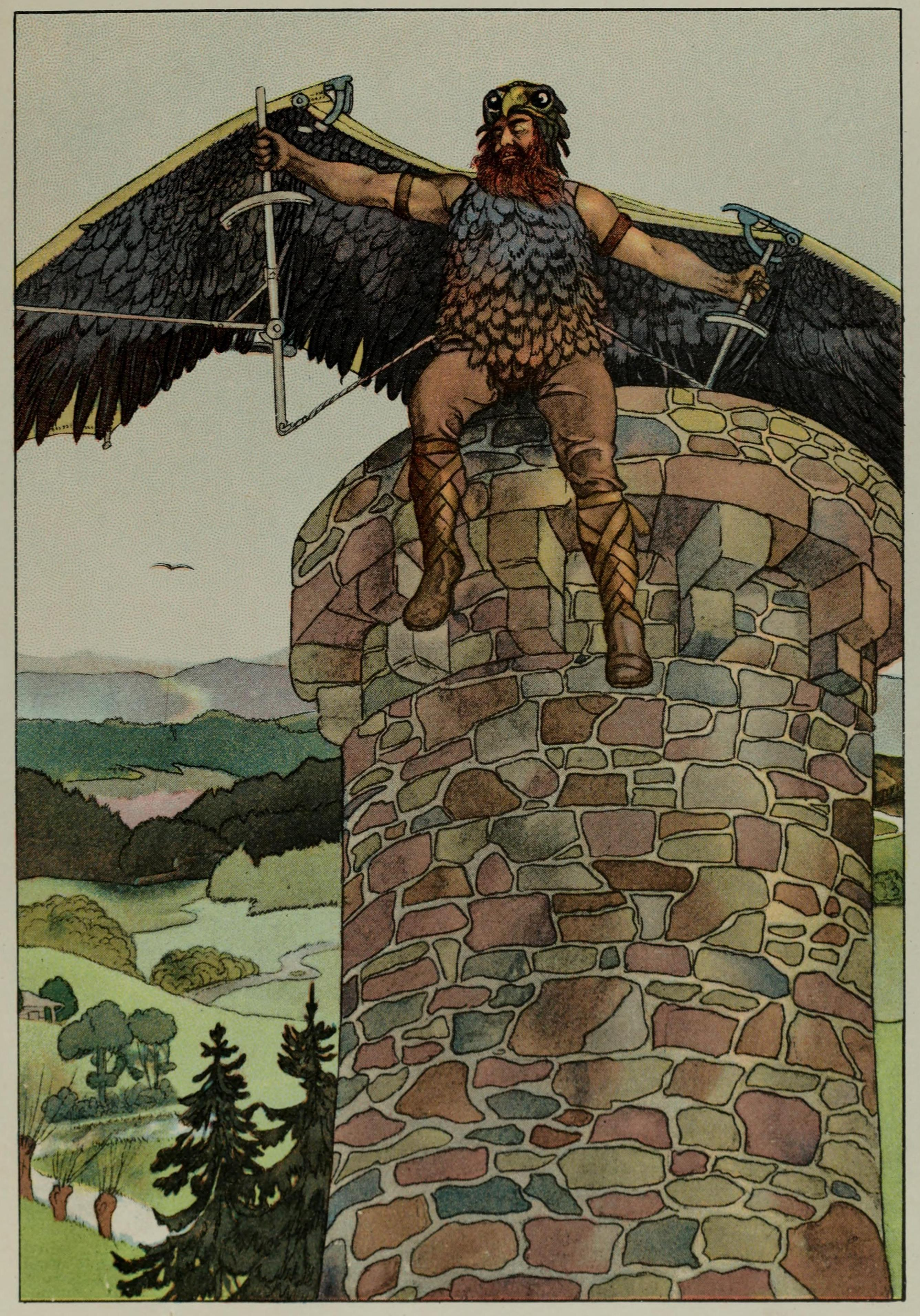 Myths and legends of all nations; famous stories from the Greek, German, English, Spanish, Scandinavian, Danish, French, Russian, Bohemian, Italian and other sources by Marshall, Logan, tr Publication date 1914 Topics Mythology, Legends Publisher Philadelphia, John C. Winston Co Collection internetarchivebooks; china Digitizing sponsor Internet Archive Contributor Internet Archive Language English Boxid IA118705 Camera Canon EOS 5D Mark II Donor alibris Identifier mythslegendsofal00mars Identifier-ark ark:/13960/t9s18zx4d Ocr ABBYY FineReader 8.0 Openlibrary_edition OL6571324M Openlibrary_work OL5080440W Page-progression lr Pages 324 Ppi 500 Scandate 20111017032623 Scanner Scanningcenter shenzhen Full catalog record MARCXML